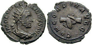 Gallienus. 253-268 AD. AR Antoninianus (3.05 gm). Struck 253-254 AD. Rome mint. IMP C P LIC GALLIENVS AVG, radiate, draped, and cuirassed bust right CONCORDIA AVGG, Clasped hands. RIC V pt. 1, 131; Göbl 13t; RSC 125.